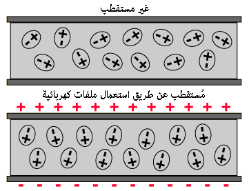 relates to permittivity